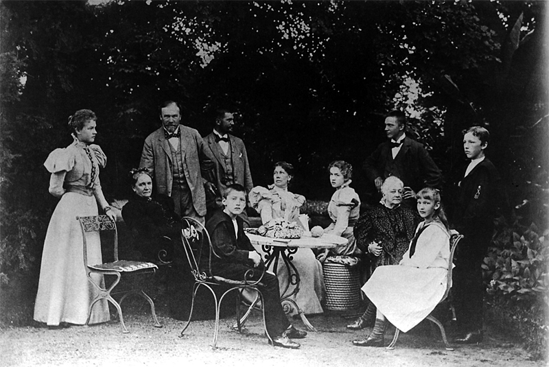 The Eulenburg family in Liebenberg, 1900. From left, standing: Adine, the father Philipp prince of Eulenburg, the secretary Kistler, Friedrich-Wendt, Sigwart. Seated: grandmother Alexandrine, Karl, mother Augusta, Lycki, grandmother Sandels, Tora.